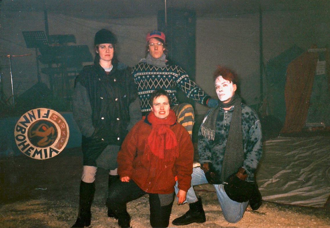 Sirkus Finnbohemia